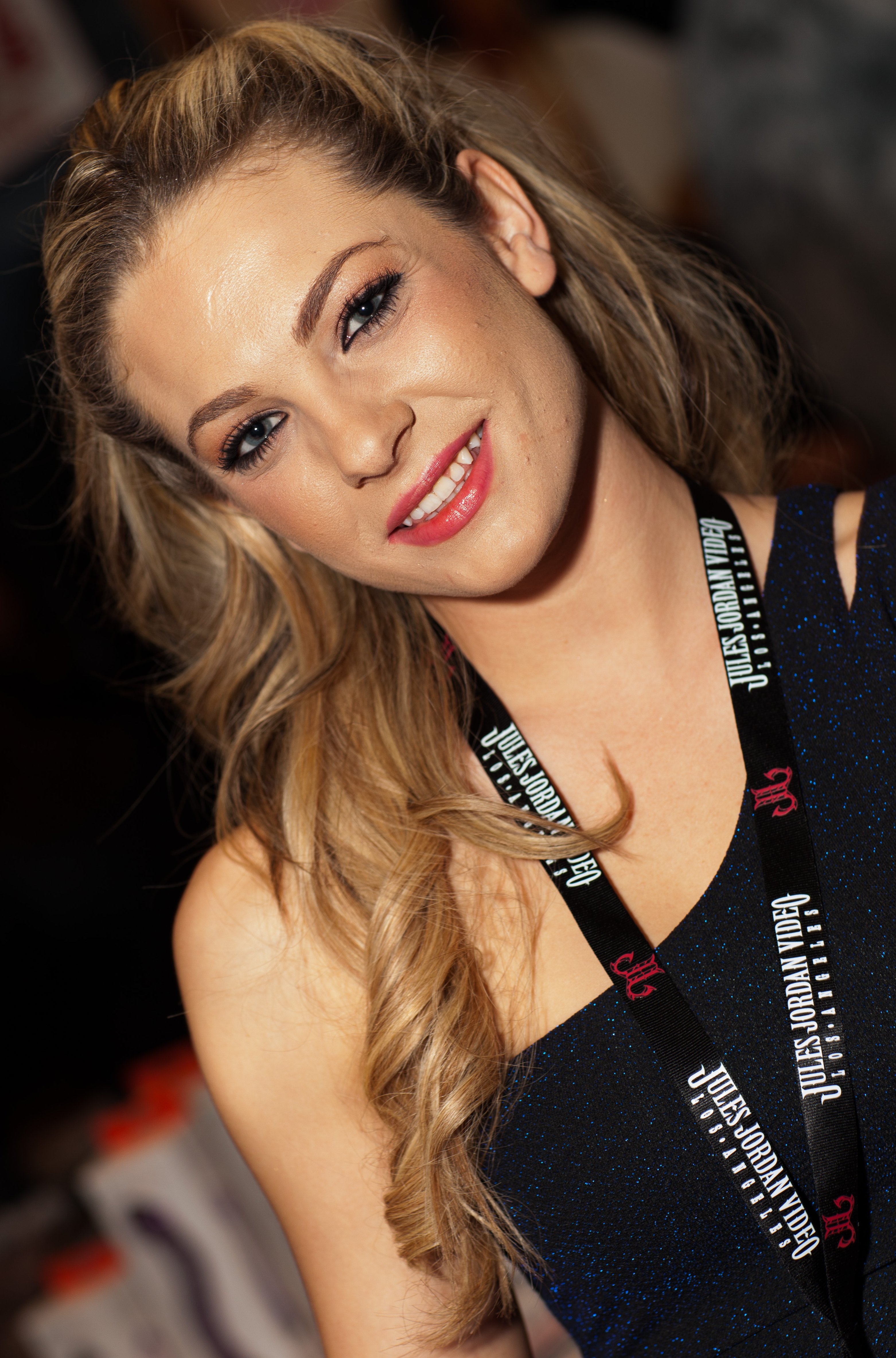 Bailey Blue - Photos from the 2013 AVN Expo & AVN Awards held at the Hard Rock Hotel & Casino in Las Vegas. Photo by Michael Dorausch. Please do tweet these photos but don't remove my copyright info without asking. This photo is licensed under a Creative Commons license. If you use this photo within the terms of the license or make special arrangements to use the photo, please list the photo credit as "Michael Dorausch" and link the credit to .